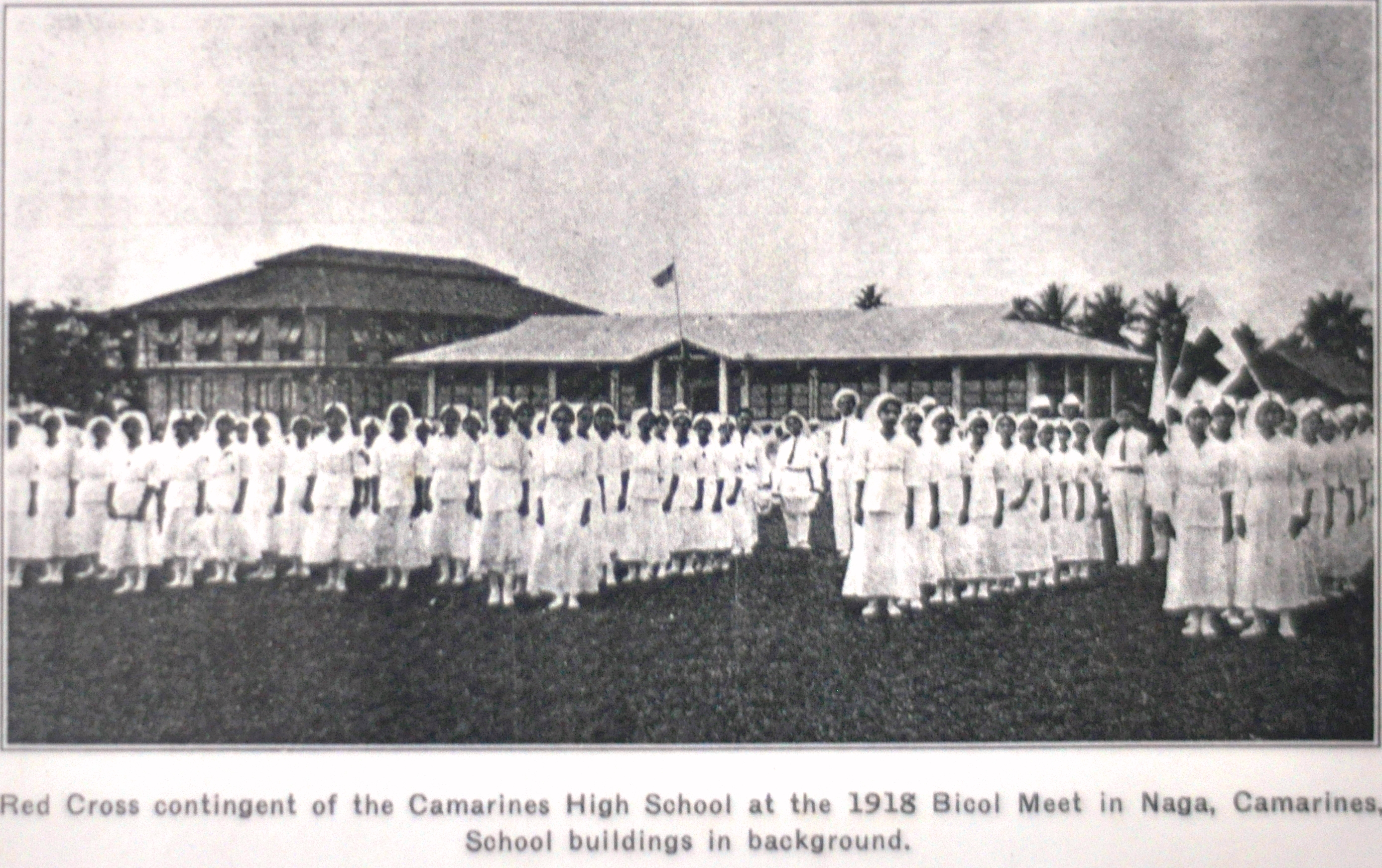 Camarines Sur National High School circa1918 showing the 2 first buildings constructed